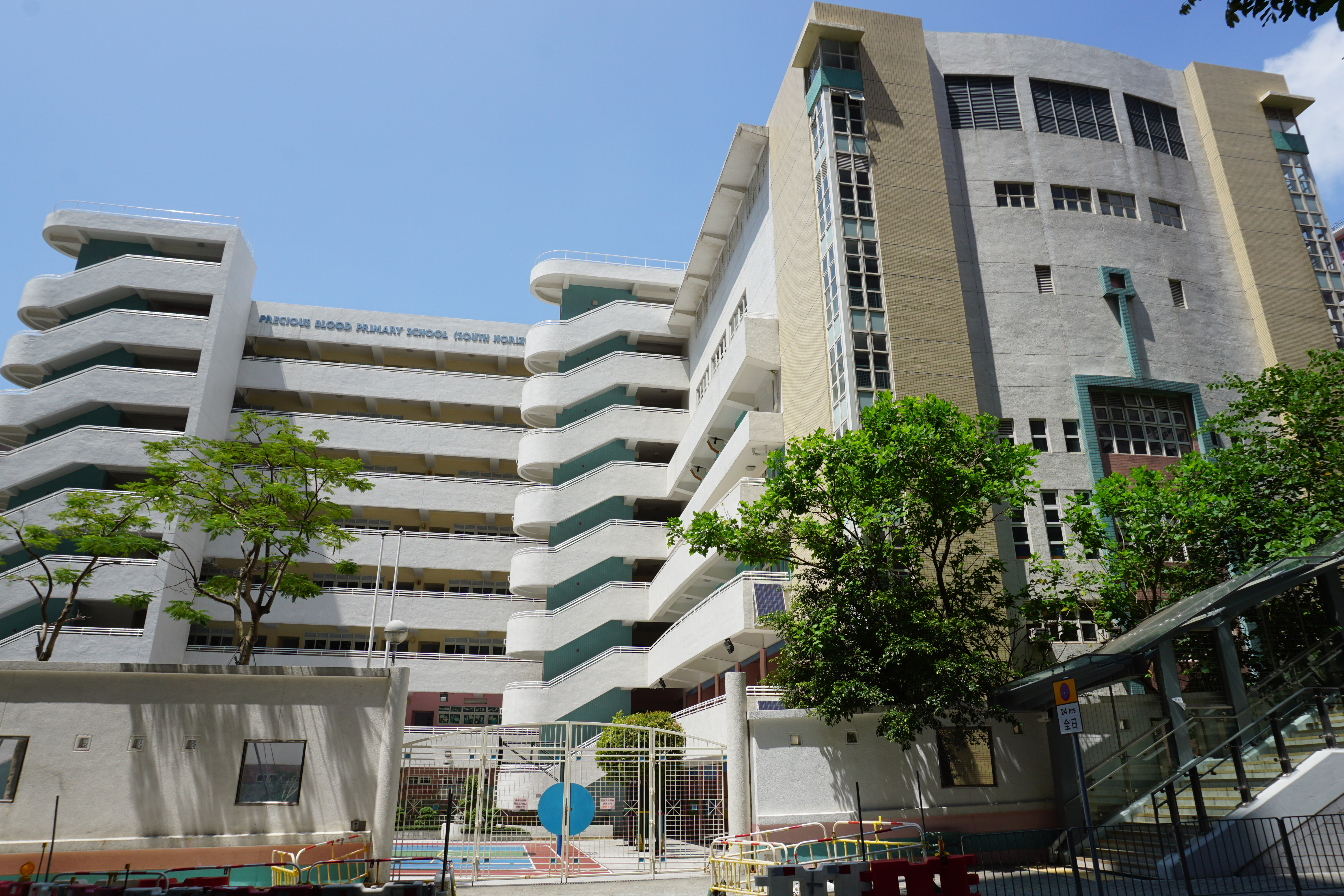 Precious Blood Primary School (South Horizons) in Ap Lei Chau, Hong Kong.